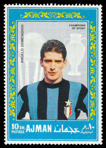 A 1968 Ajman stamp commemorating Inter Milan player Angelo Domenghini.